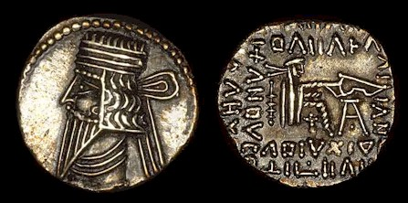 Coin of Vologases III of Parthia. Reverse shows a seated archer carrying a bow, surrounded by meaningless Greek-like letterforms. From [1]